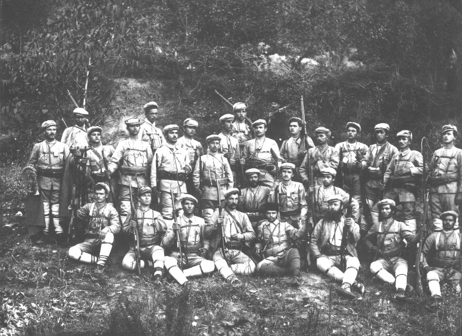 cheta of Georgi Sugarev